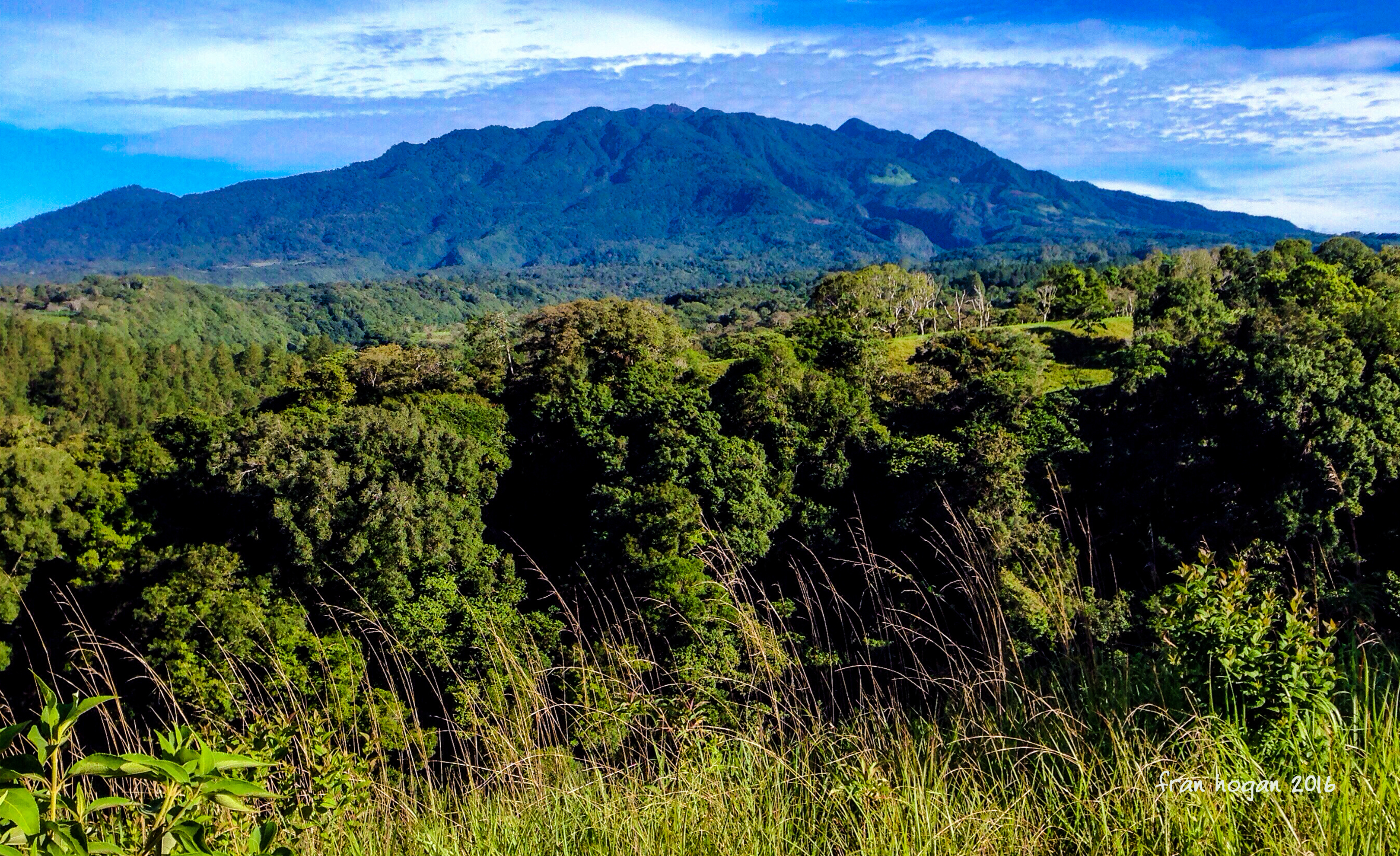 View of our favorite volcano, Baru, Panama's tallest mountain.